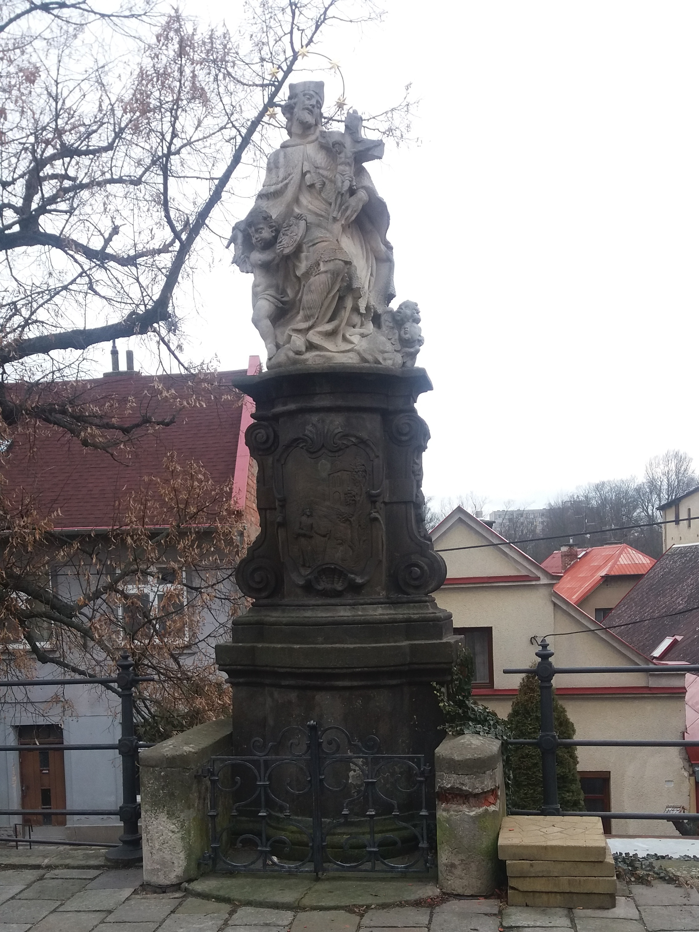 Statue of Saint John of Nepomuk (Jaroměř)